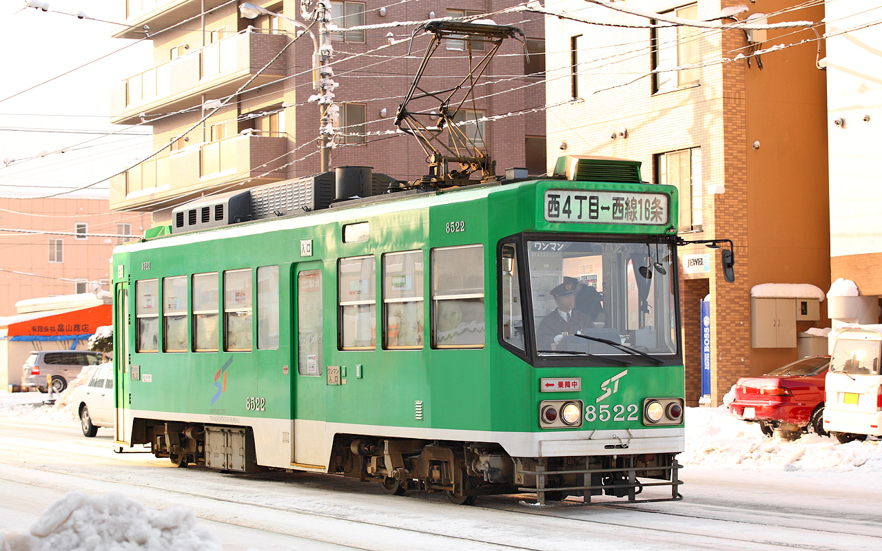 Sapporo Tram Type 8520 ( No.8522, Nishisen 9 jō Asahiyama Kōen Dōri - Nishisen 6 jō ).